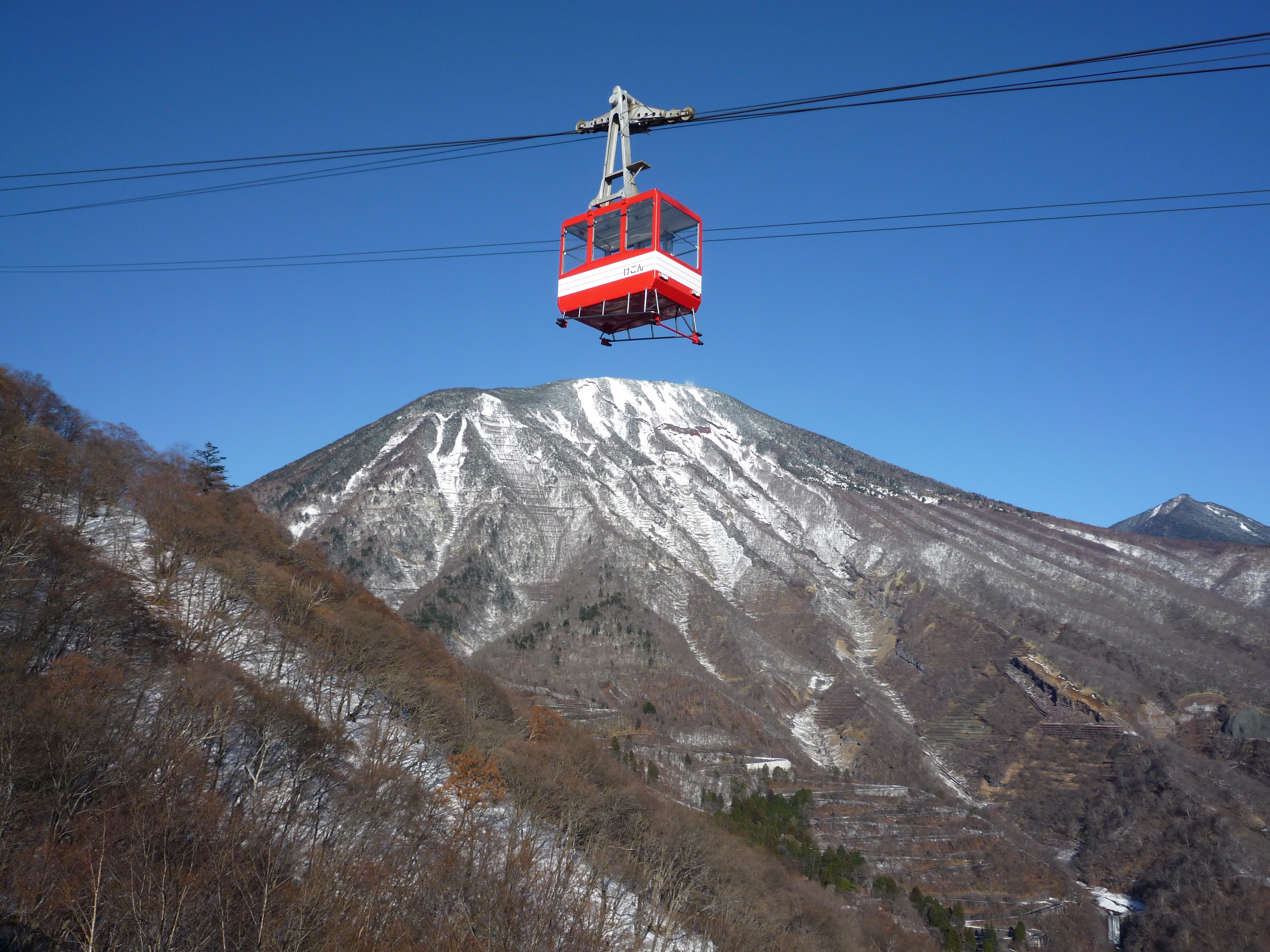 Akechidaira Ropeway and Mount Nantai in winter, viewed from Akechidaira Parking Area.